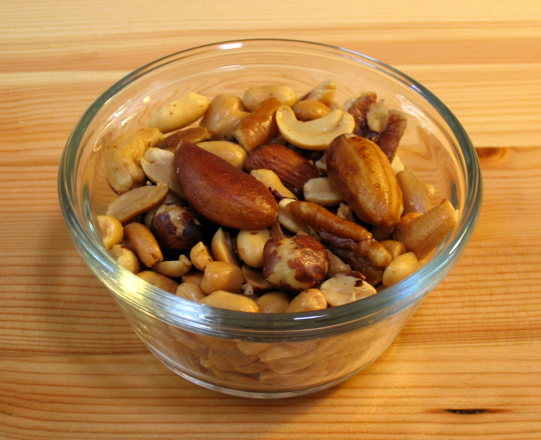 Small bowl of mixed nuts displaying large nuts on top and peanuts below, on wood veneer